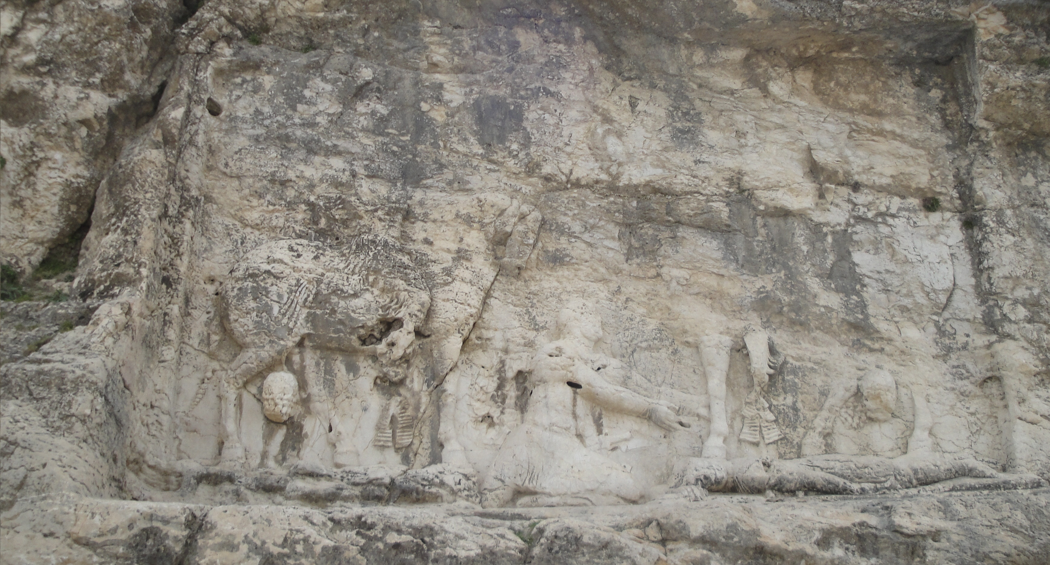 Shapur victory - bishapur